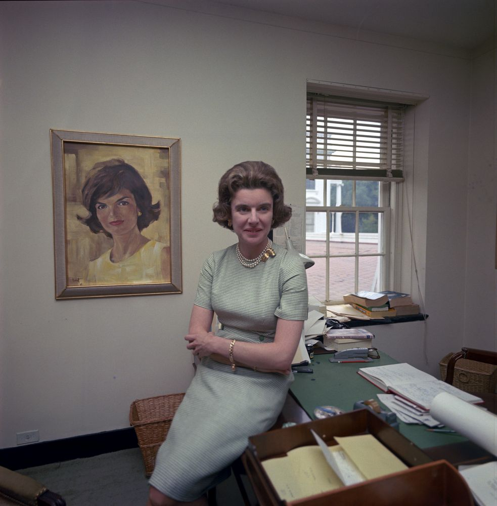 ST-C186-1-63 30MAY1963Newly-appointed First Lady Social Secretary Nancy Tuckerman in her office at the White House. Please credit "Cecil Stoughton. White House Photographs. John F. Kennedy Presidential Library and Museum, Boston"